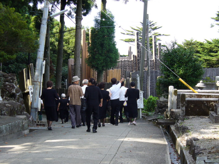 Oku-no-in of Kongoshoji temple on Mt. Asama Ise city Mie Prf. Japan.